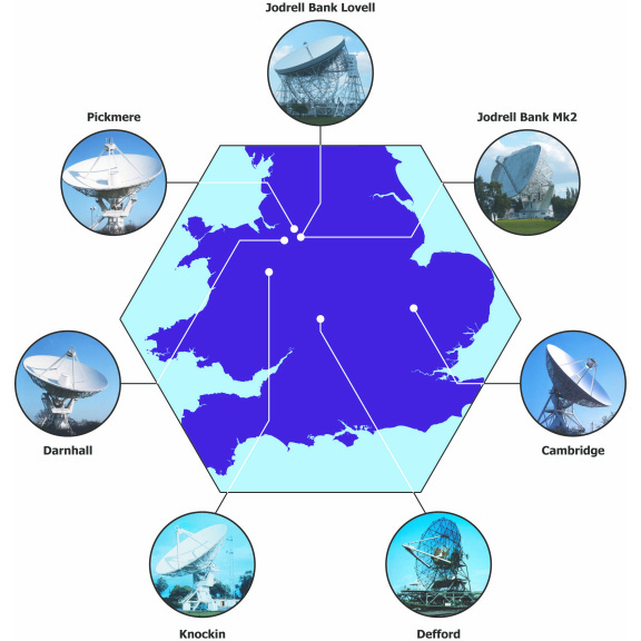 A map of the UK showing the locations of radio telescopes within the MERLIN array.